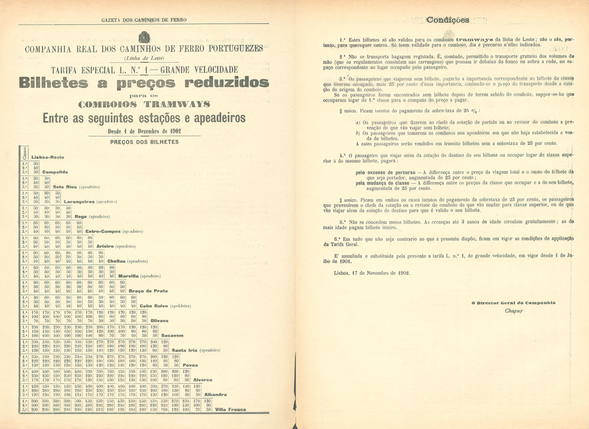 Advertisement of the Companhia Real dos Caminhos de Ferro Portugueses (Royal Company of the Portuguese Railways), showing the special tariff n.º 1, for tickets at reduced prices for the tramway trains between Lisboa - Rossio and Vila Franca de Xira. This image was published on the Gazeta dos Caminhos de Ferro magazine no. 359, of the 1st December 1902, and scanned by the Hemeroteca Municipal de Lisboa.